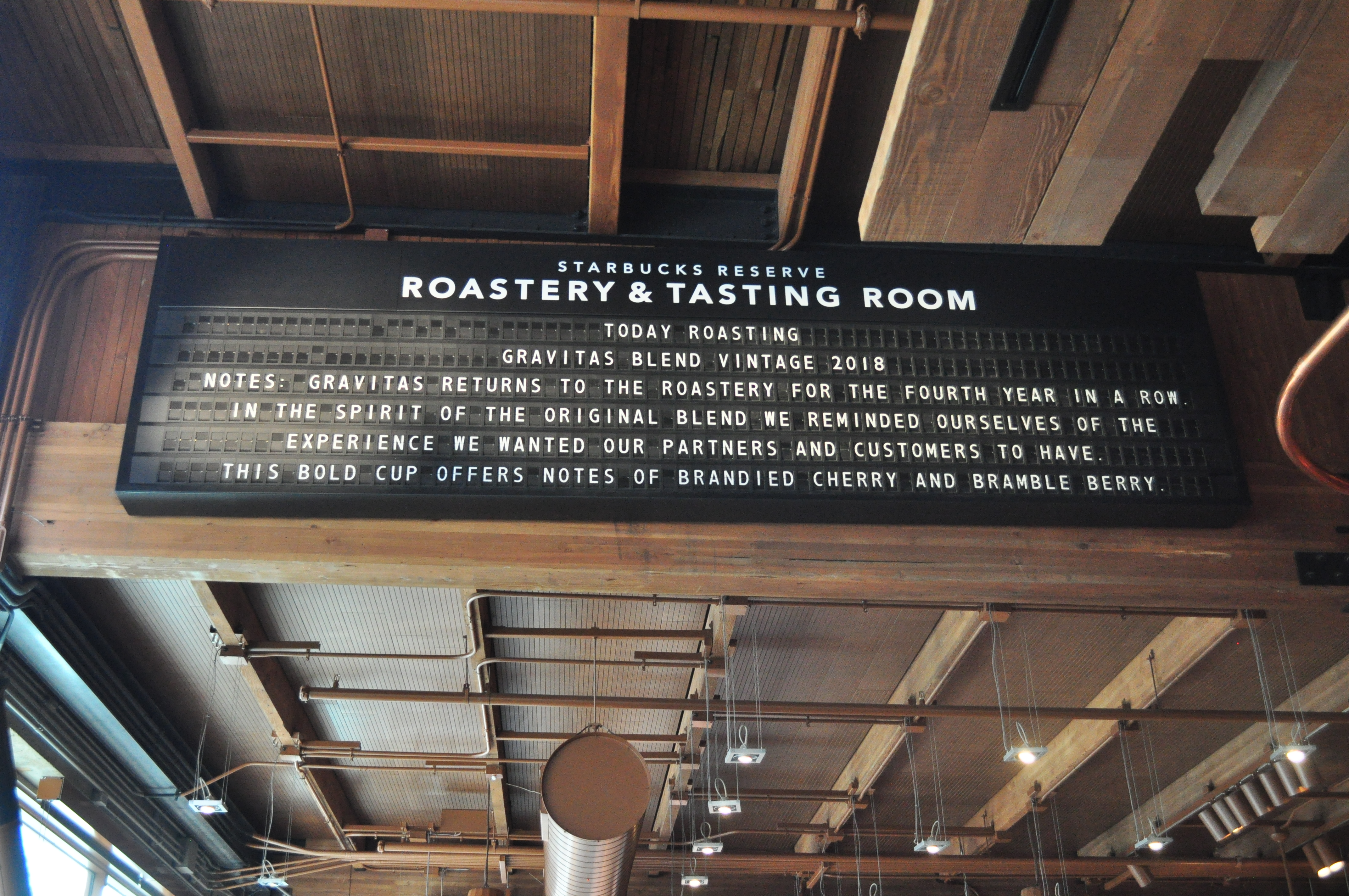 Split-flap display, interior, Starbucks Reserve Roastery and Tasting Room, 1124 Pike Street, Capitol Hill, Seattle, Washington, U.S.